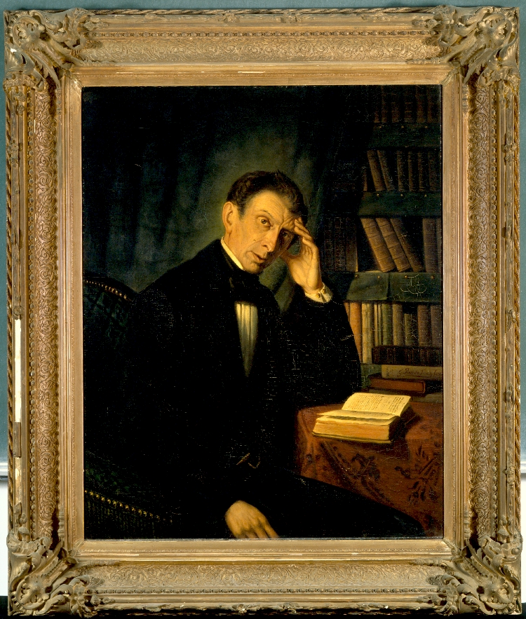 Taco Roorda by Gerrit Roorda Tacosz.(1835-1890)